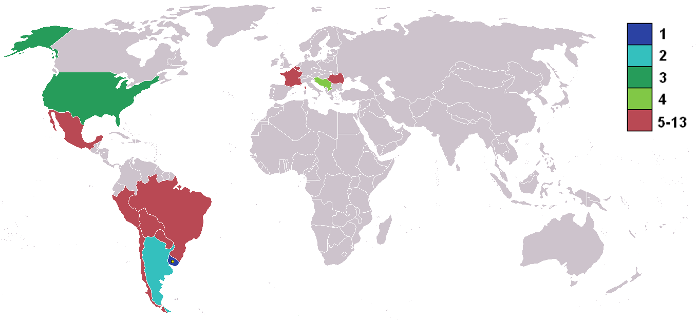 Participating countries.